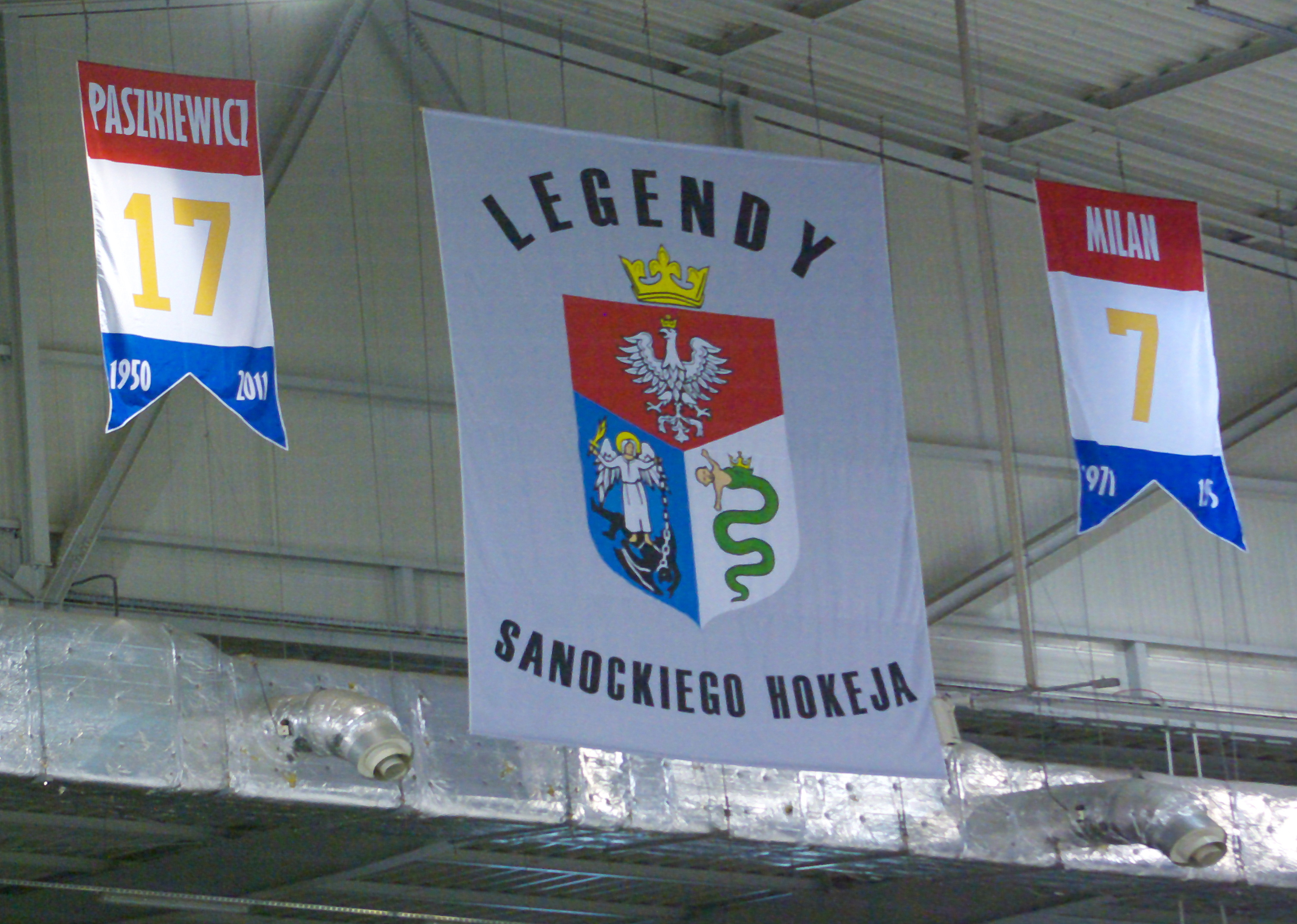 Retired numbers for Legends of Sanok Hockey in Arena Sanok: #17 Jan Paszkiewicz- Stal Sanok (1950-2011), #7 Piotr Milan - STS Autosan Sanok (1971-1995).